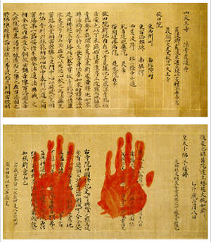 Legendary history of Shitennō-ji (四天王寺縁起, Shitennō-ji engi)